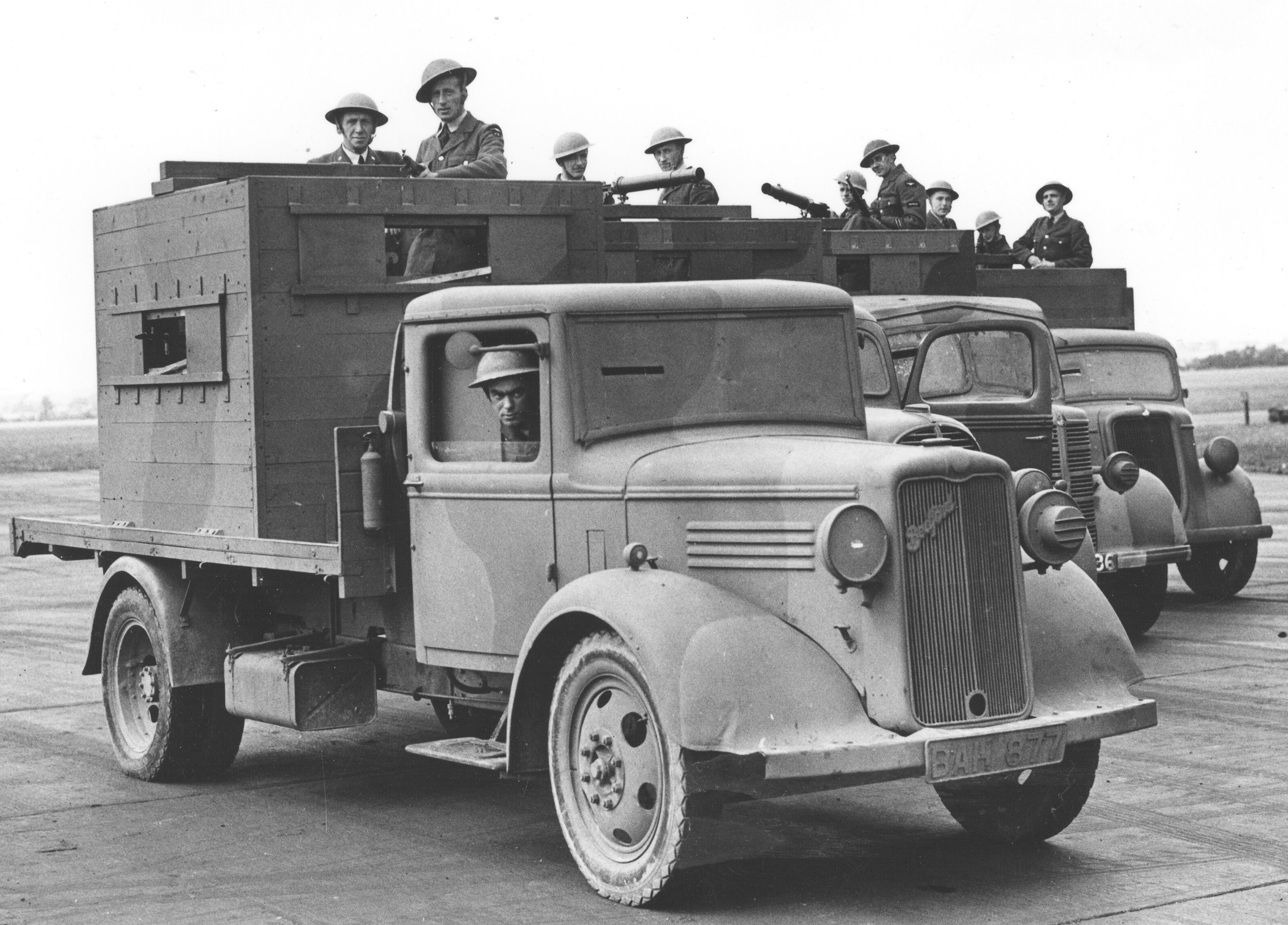 Four Armadillo mark I with RAF crews